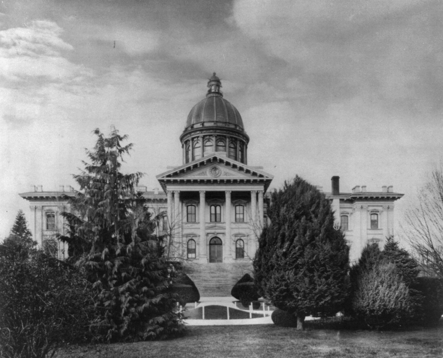 Oregon State Capitol front.